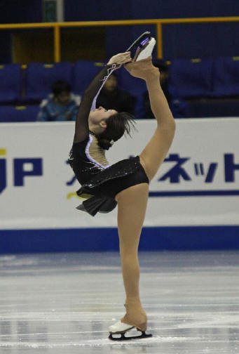 Angela Maxwell performs a Biellmann spin during her short program at the 2008-2009 ISU Junior Grand Prix Final.